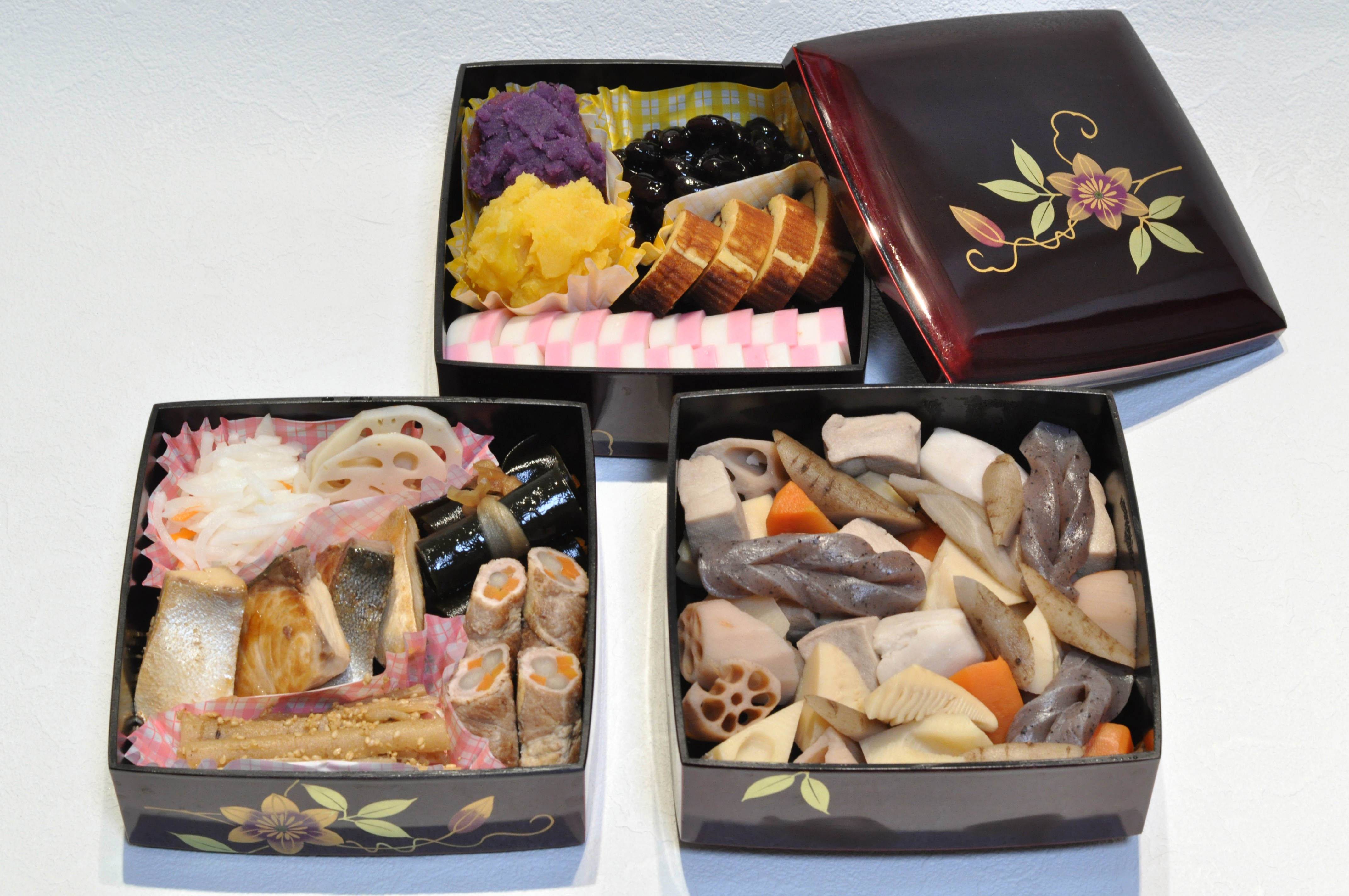 Homemade Osechi ryōri